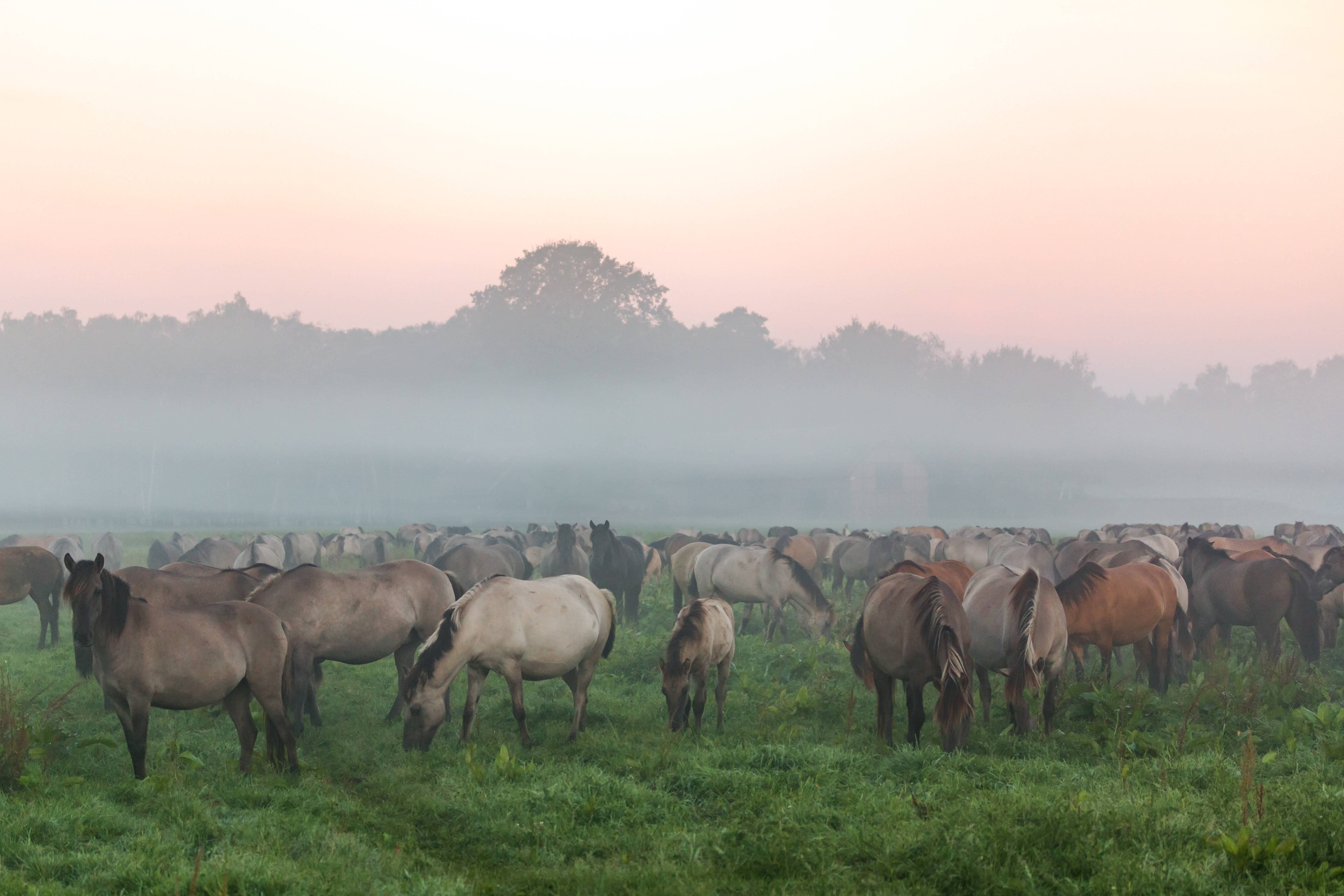 Dülmen ponies in the Wildbahn in the Merfelder Bruch (COE-004) in the morning fog at sunrise, Merfeld, Dülmen, North Rhine-Westphalia, Germany